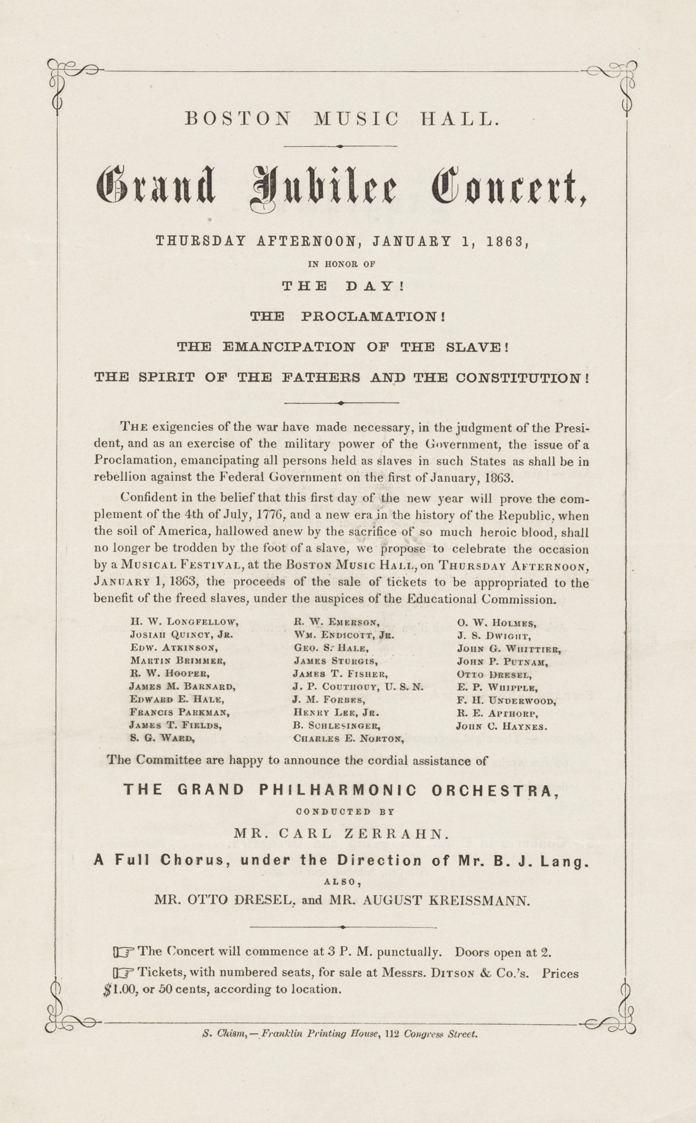 Playbill: Boston Music Hall, "Grand Jubilee Concert, Thursday afternoon, January 1, 1863, in honor of the day! the proclamation! the emancipation of the slave! the spirit of the fathers and the constitution!" Proceeds from this concert were donated to formerly enslaved people who were freed by the Emancipation Proclamation. It includes a list of well-known people who endorsed the program, including: Henry Wadsworth Longfellow, Josiah Quincy, Jr., Edward Everett Hale, Francis Parkman, James T. Fields, Samuel G. Ward, Ralph Waldo Emerson, Charles Eliot Norton, Oliver Wendell Holmes, John Sullivan Dwight, John Greenleaf Whittier, Edwin Percy Whipple. *AB85.H7375.A863n, Houghton Library, Harvard University